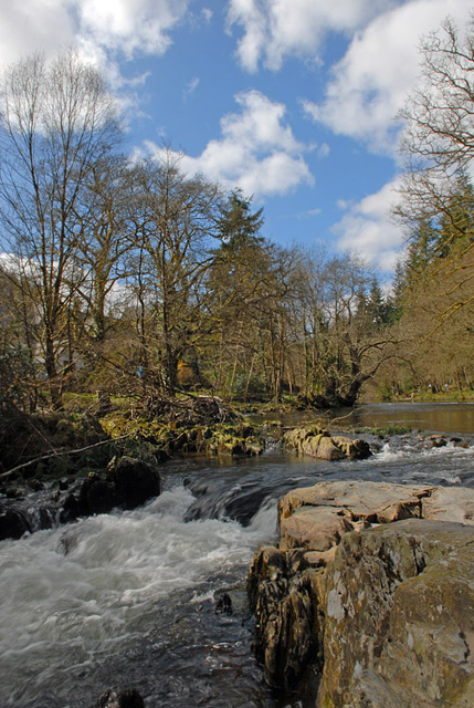 Betws-y-coed waterfall